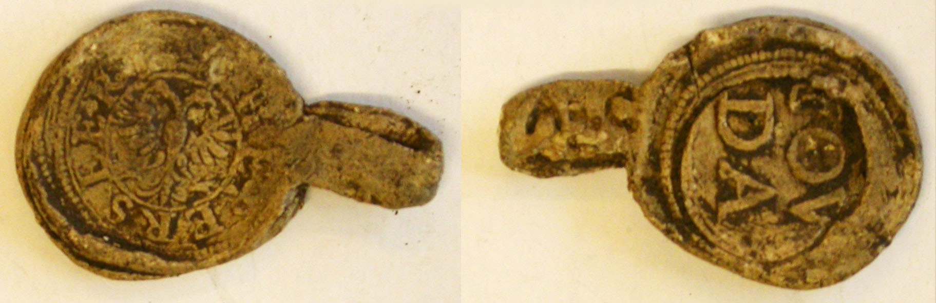 A lead cloth seal, probably 17th century in date. The seal bears a double-headed eagle in its centre, with upwardly curving spread wings. A circle separates the eagle from the inscription which reads: HEPERSEE[R] or [K]... (probably the name of a clothier). There are two dotted circles outside the inscription. The reverse is inscribed with GOV/DA, again within a dotted circle. This inscription identifies the seal with the city of Gouda in the Netherlands. Geoff Egan (Finds Adviser) has confirmed that this is the first cloth seal from Gouda to be recorded in Britain. It is evidence for Northumberland’s contribution to the important North Sea cloth trade, exporting wool and importing linens. NCL-801996 cloth seal This was added from the site called under the name portableantiquities. See source for details.